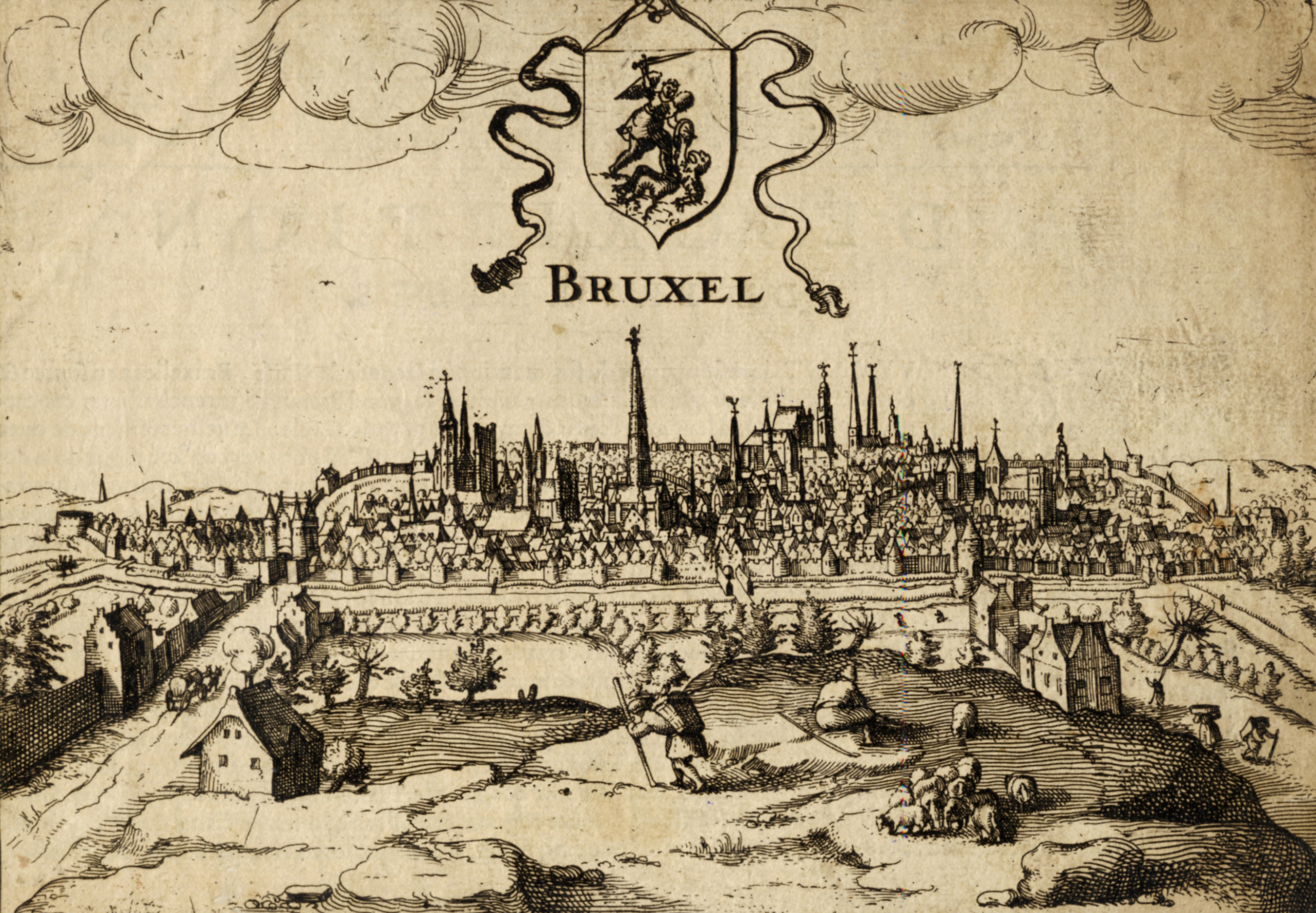 A view of Brussels( Belgium) from suburb.Engraving circa 1610